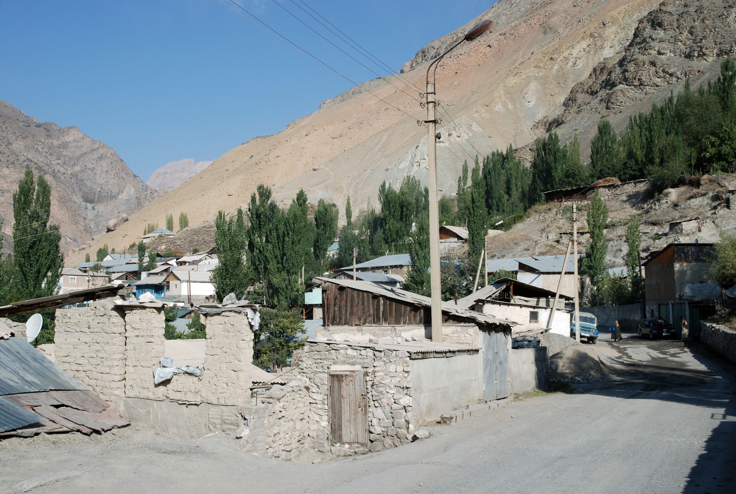 Anzob, village center